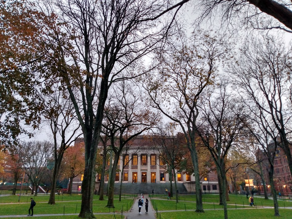 Harvard University,. November, 2019. Photography by David Adam Kess